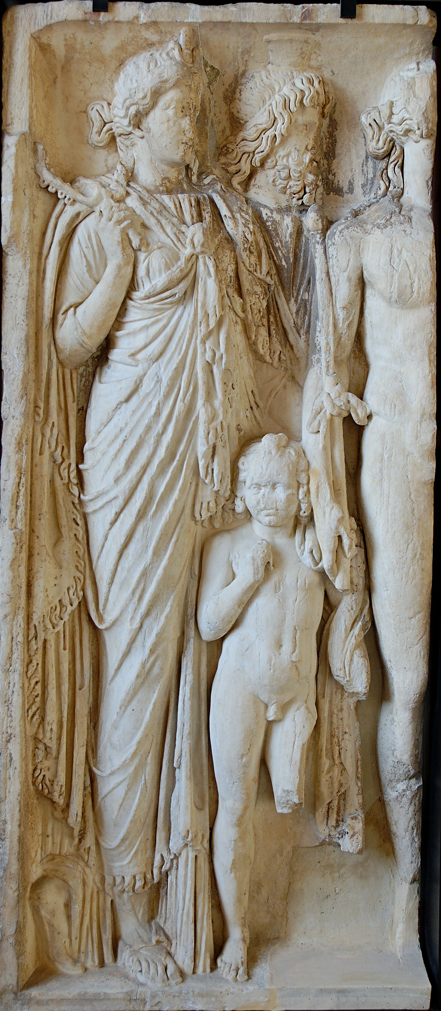 Isis (on the left, holding a sistrum), Sarapis (wearing a modius), the child Harpocrates (holding a cornucopia) and Dionysos (holding the thyrsus). Marble relief, last quarter of the 2nd century CE, found at Henchir el-Attermine, Tunisia.